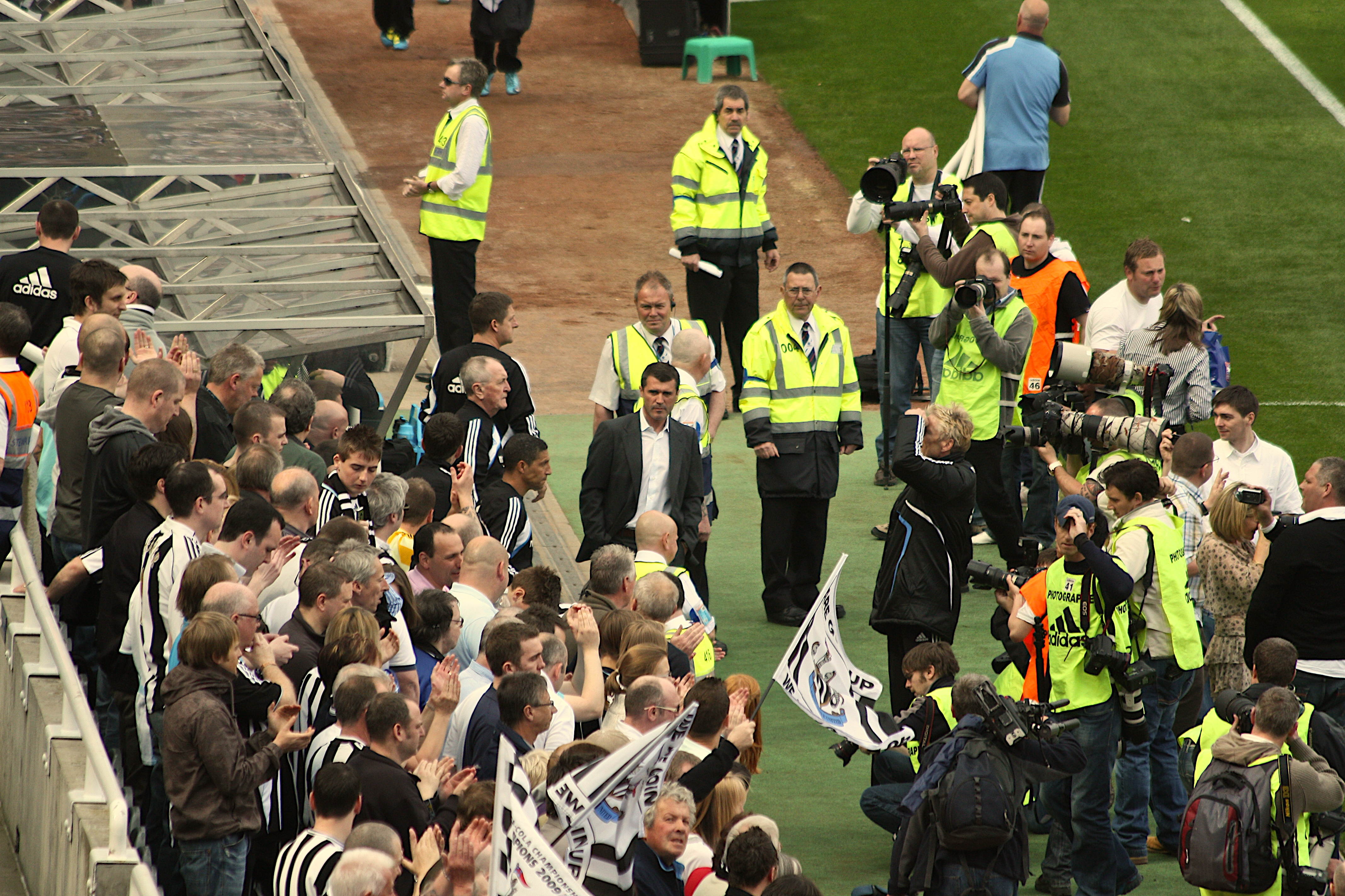 Roy Keane and Chris Hughton